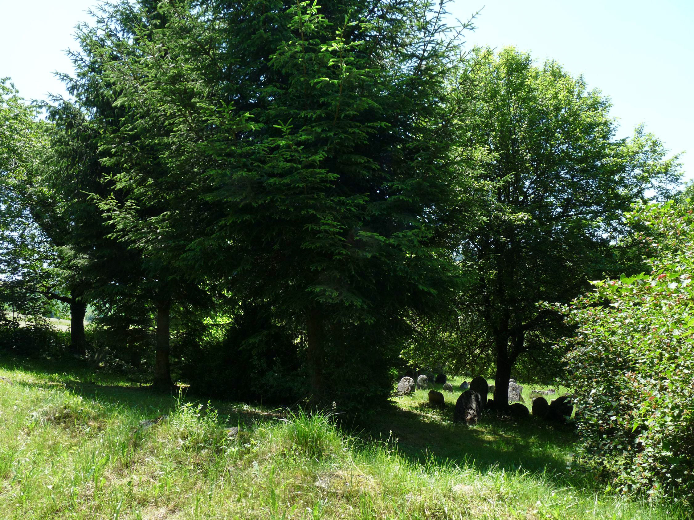 iew of the Jewish cemetery by the municipality of Dlouhá Ves, Klatovy District, Plzeň Region, Czech Republic.